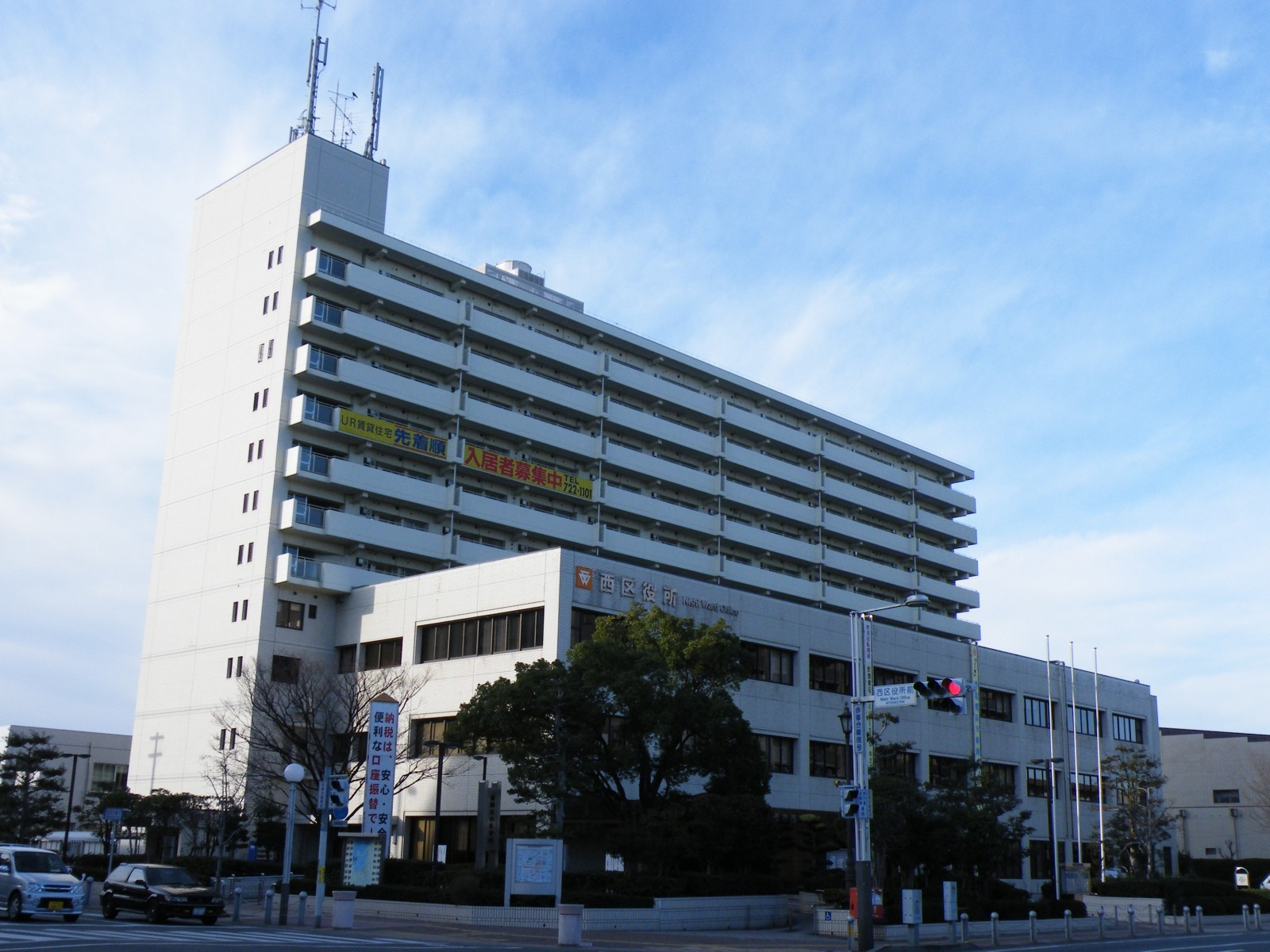 Nishi Word Office,Fukuoka City,Japan